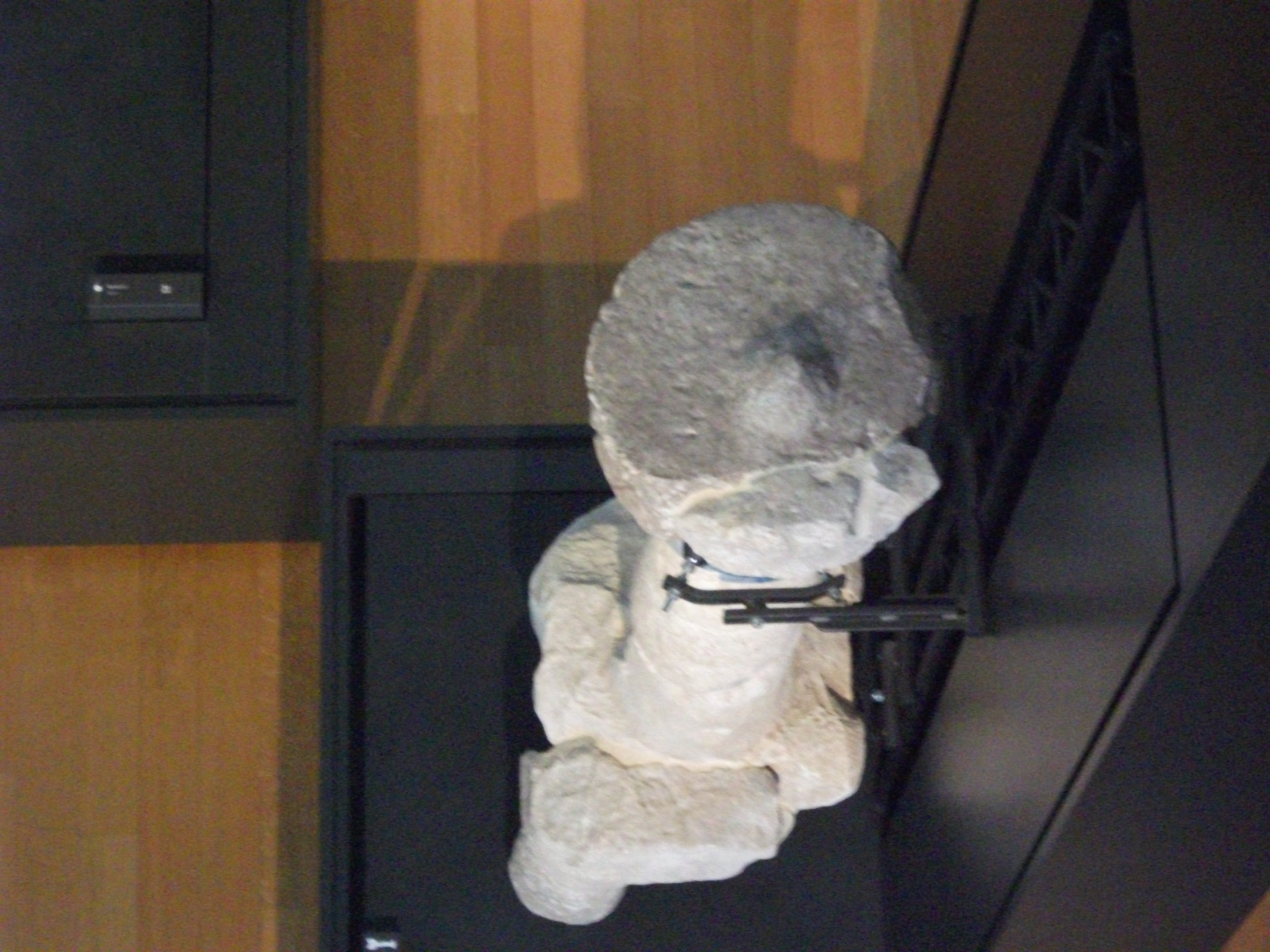 Sculpture, Giant of Monte Prama, boxer, Sardinia, Italy, Nuragic civilization,archaeology, bronze age, sea peoples,prehistory